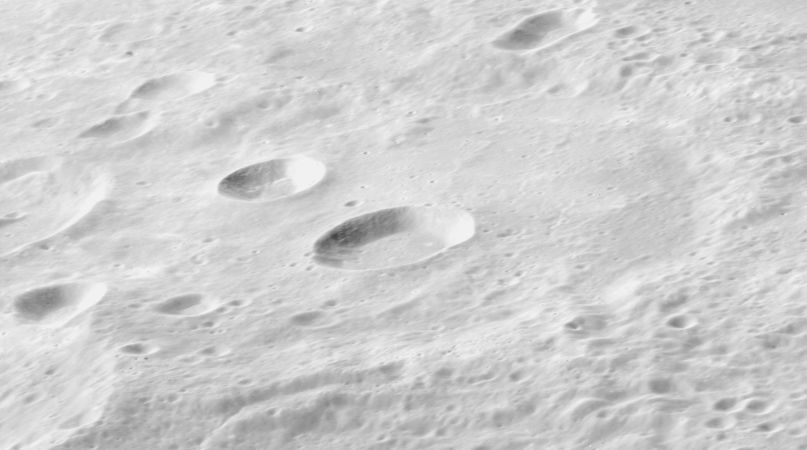 Oblique view of Rayleigh crater, facing north, on the far side of the moon. Taken by Apollo 16 panoramic camera. Brightness and contrast adjusted from original.